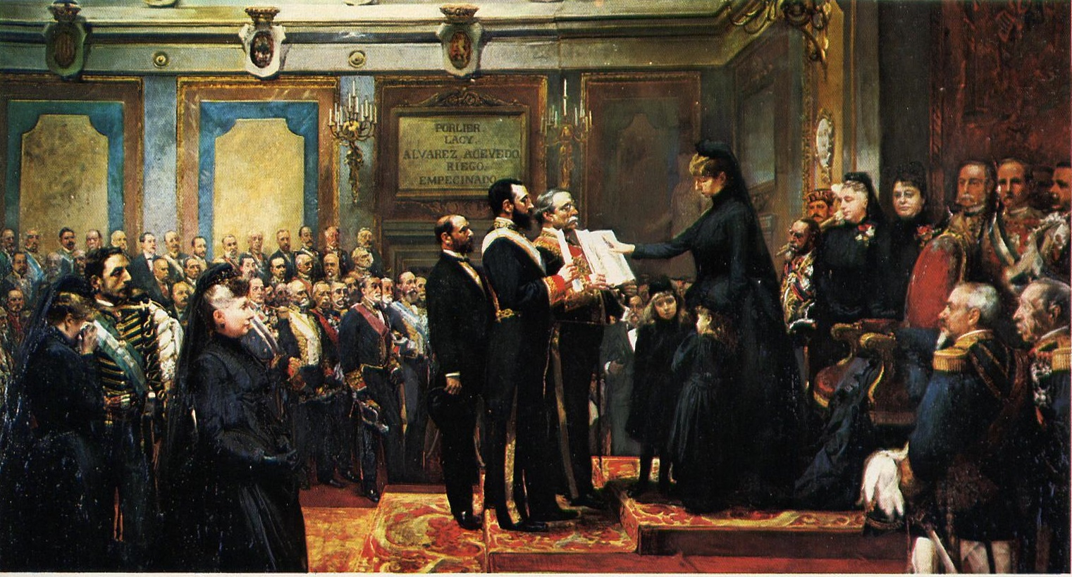 Oath of the Constitution of 1876 by the Queen Regent Maria Christina of Austria